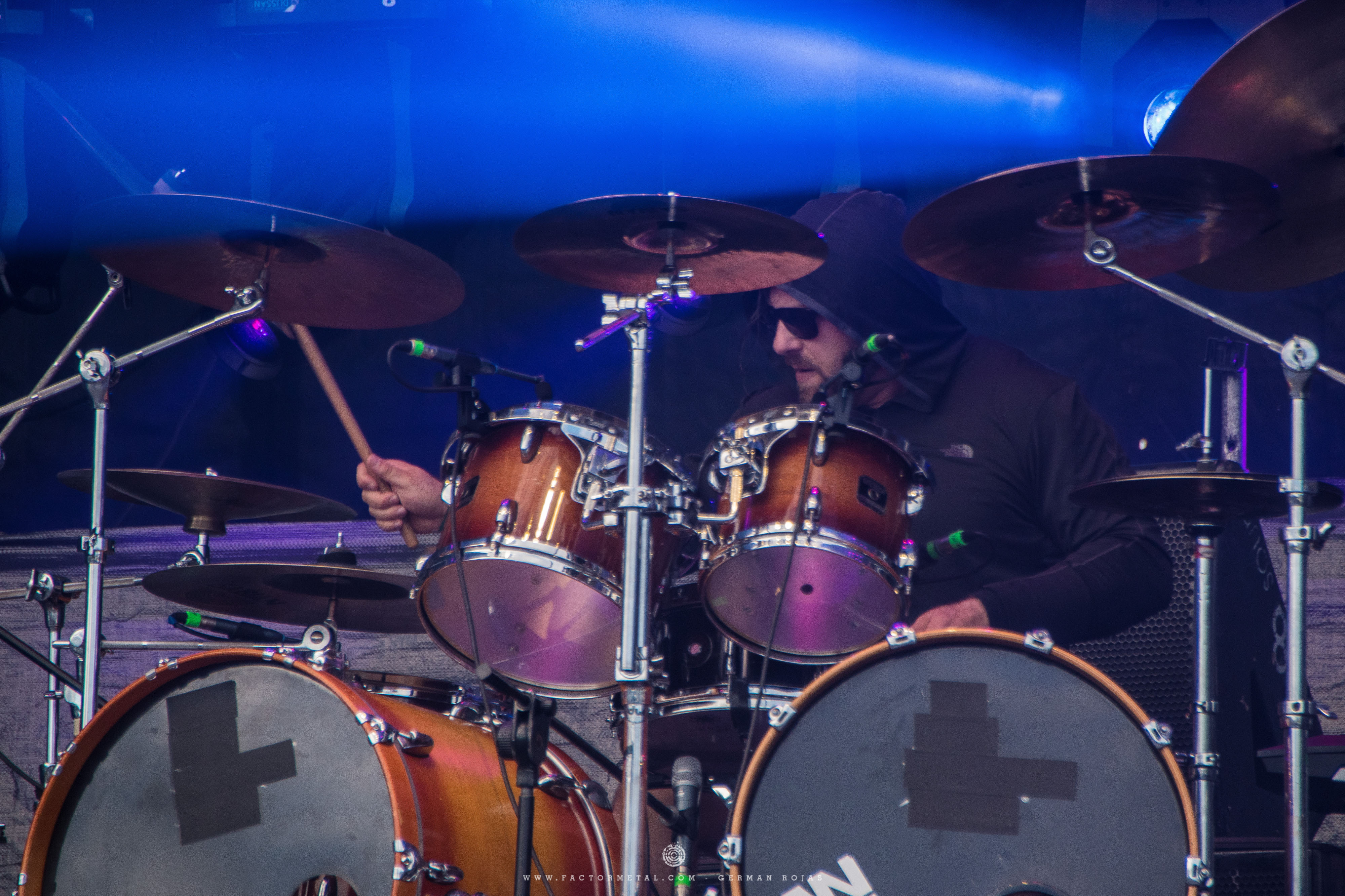 Rock al Parque 2018 Parque Simón Bólivar Bogotá, Colombia